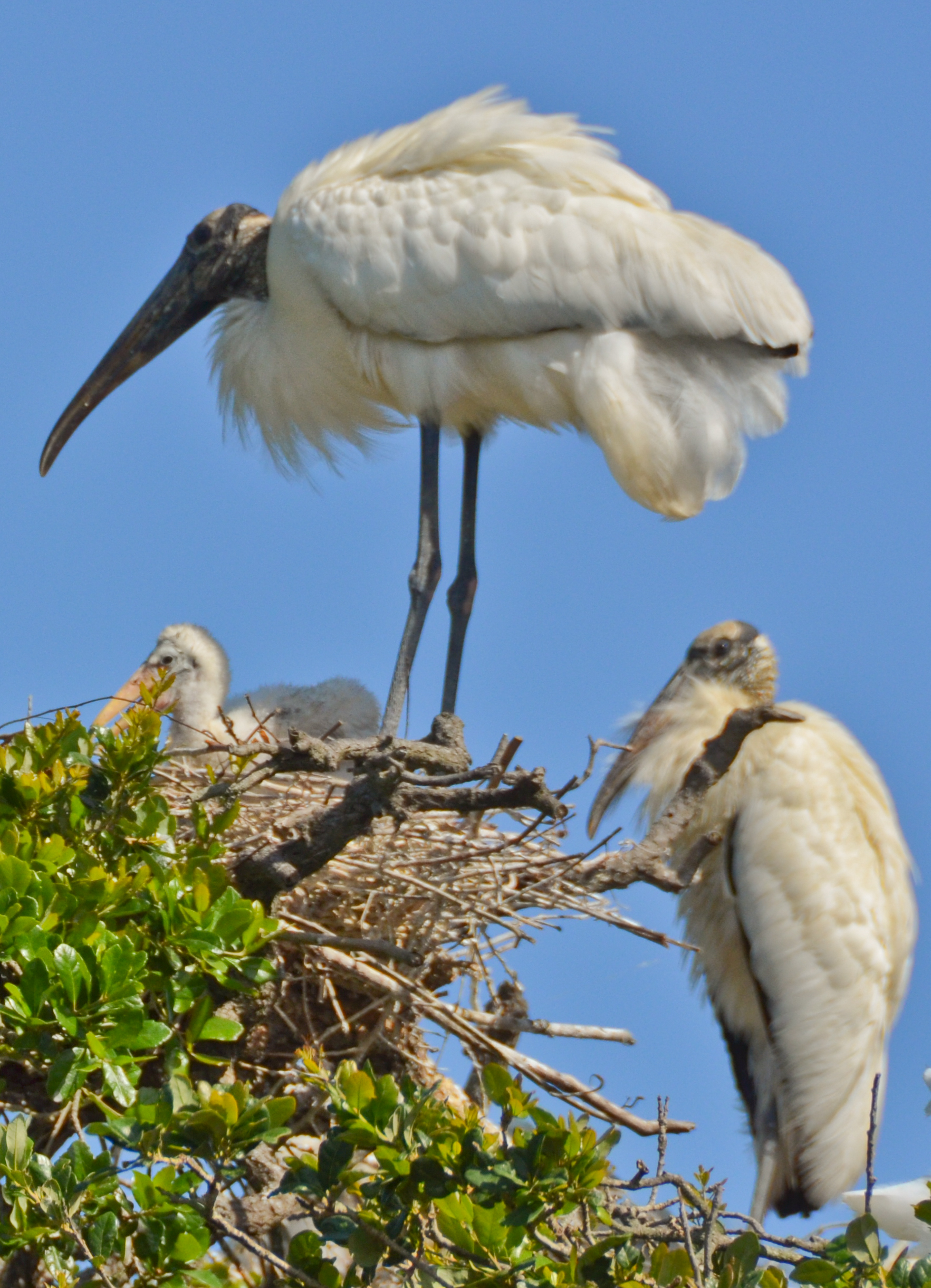 Wood storks with chicks in nest